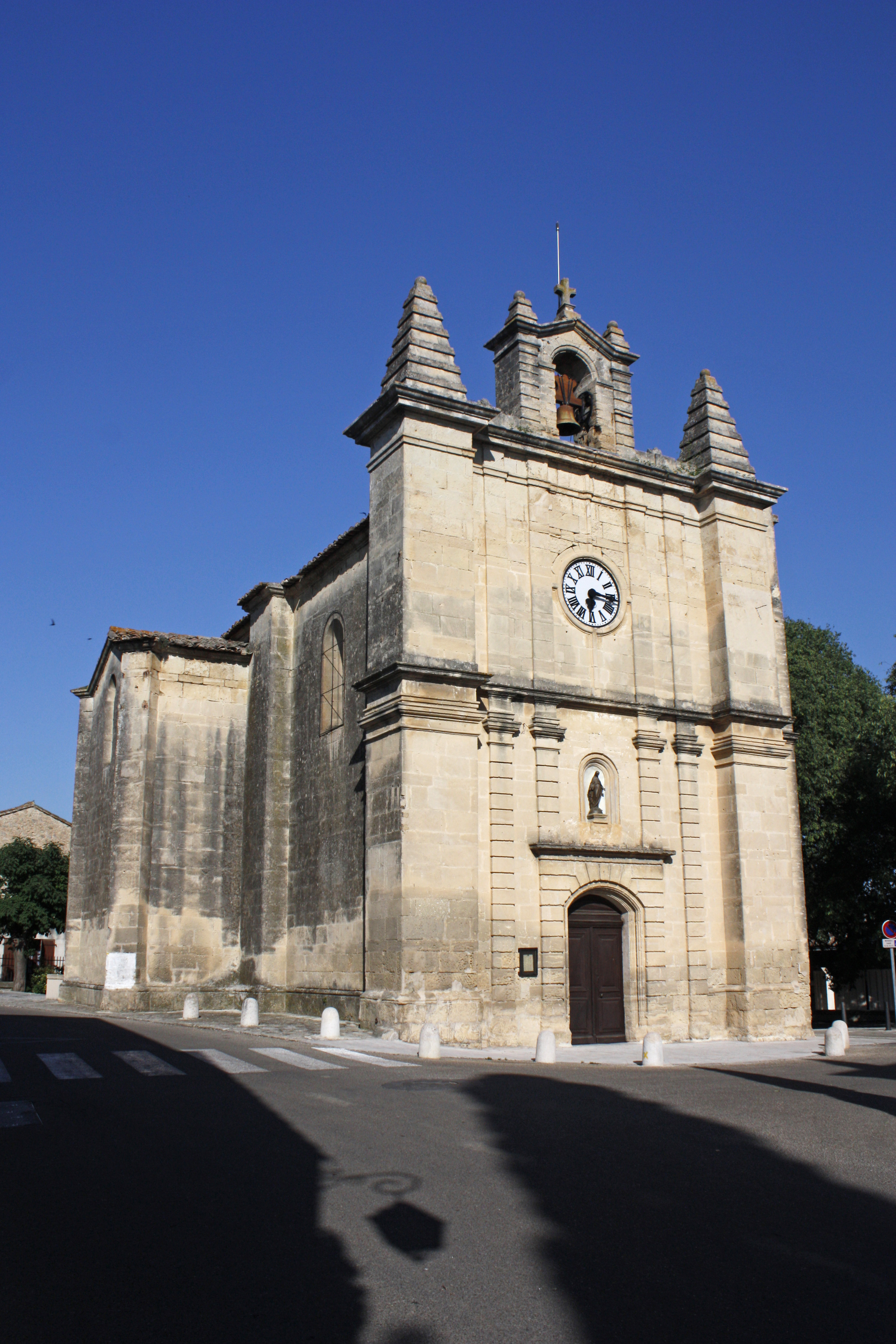 Parish church of Aujargues, , Gard , France.